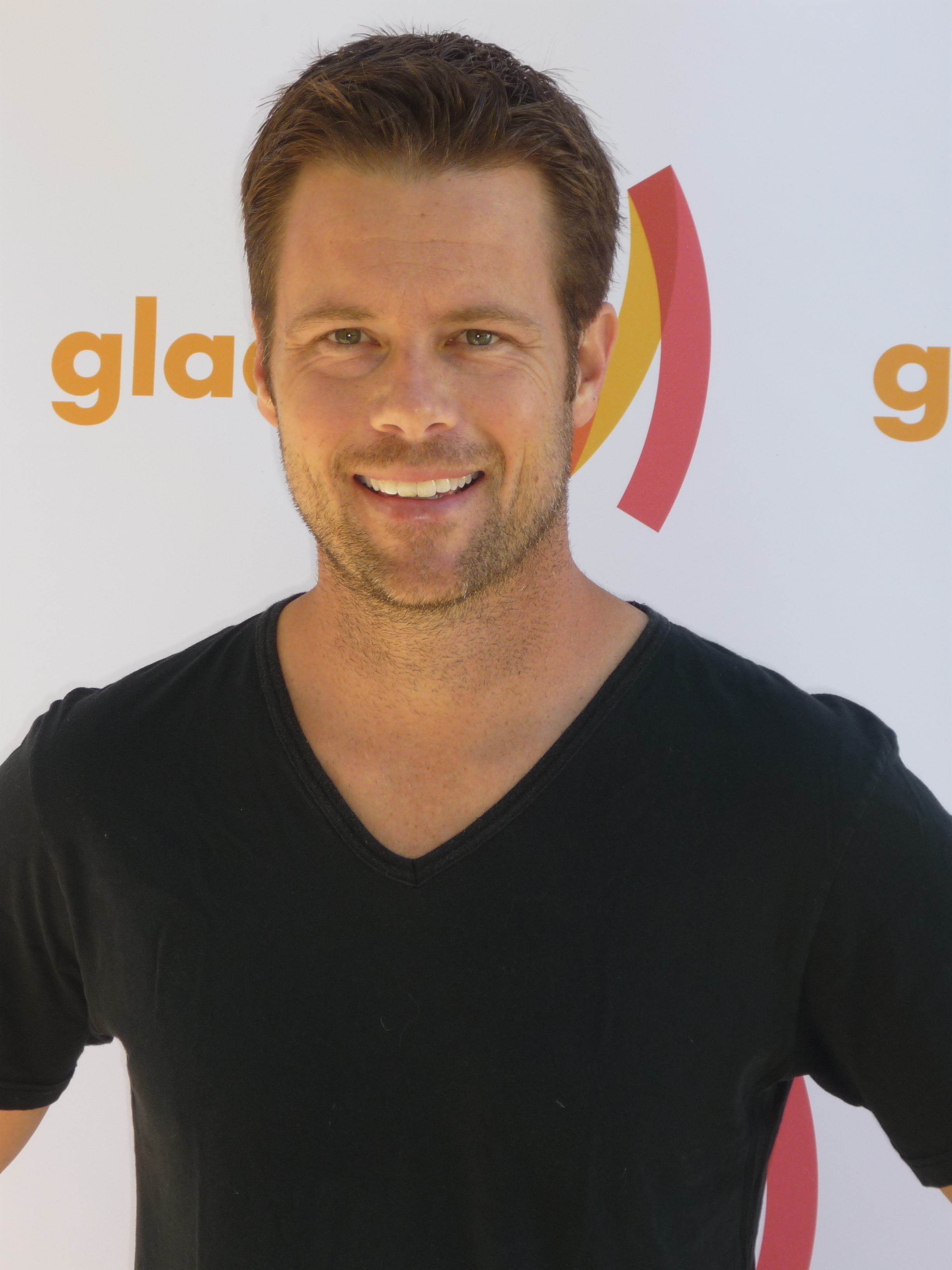 Brad Rowe in july 2010.